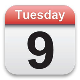 Icon of the calendar on iPhone